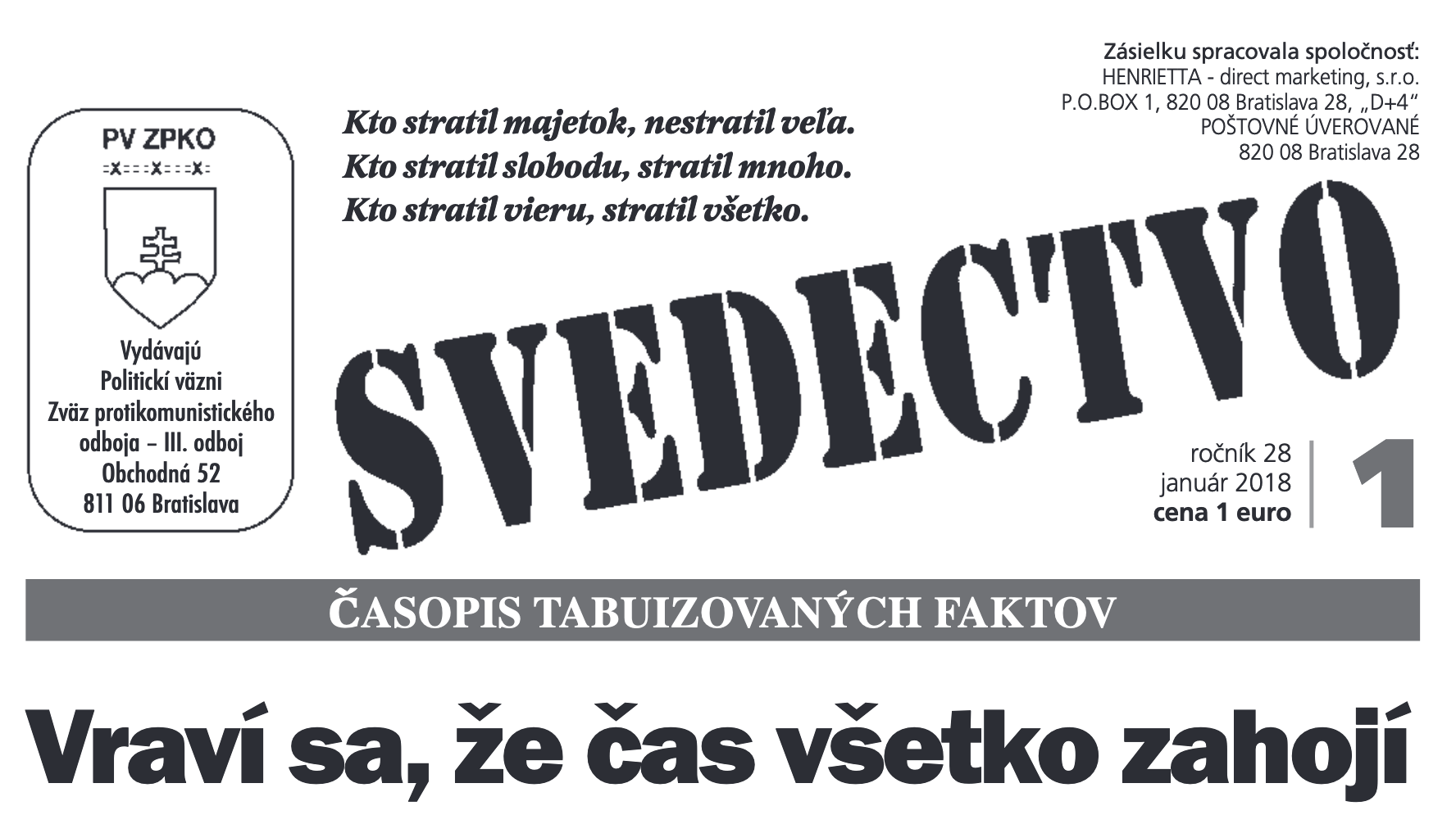 January 2018 edition of Svedectvo magazine, also volume 28, issue 1.